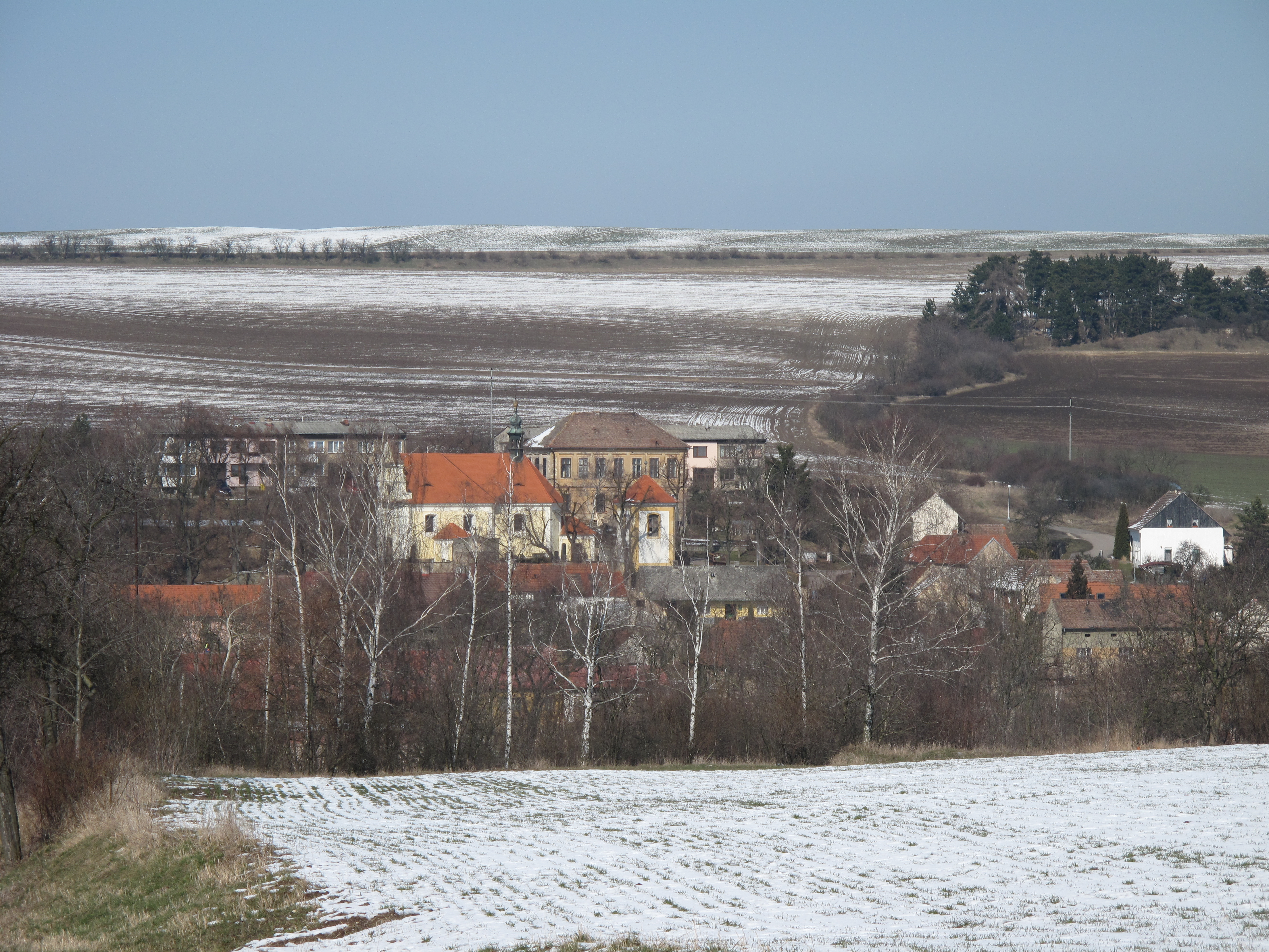 Páleček village as seen from the south, Kladno District, Czech Republic.